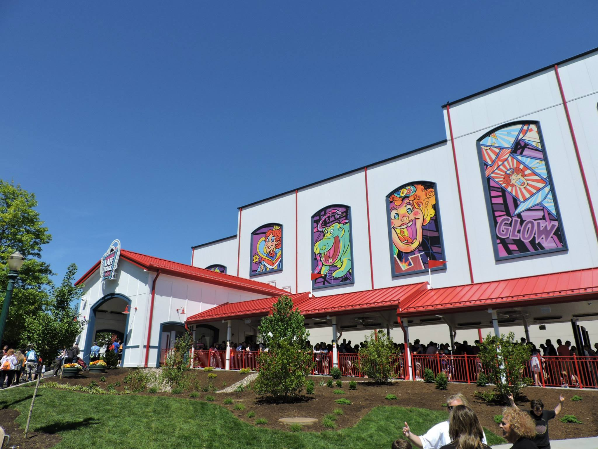 Laff Trakk is an indoor coaster; this is the exterior of the building showing the entrance and covered queue line area.